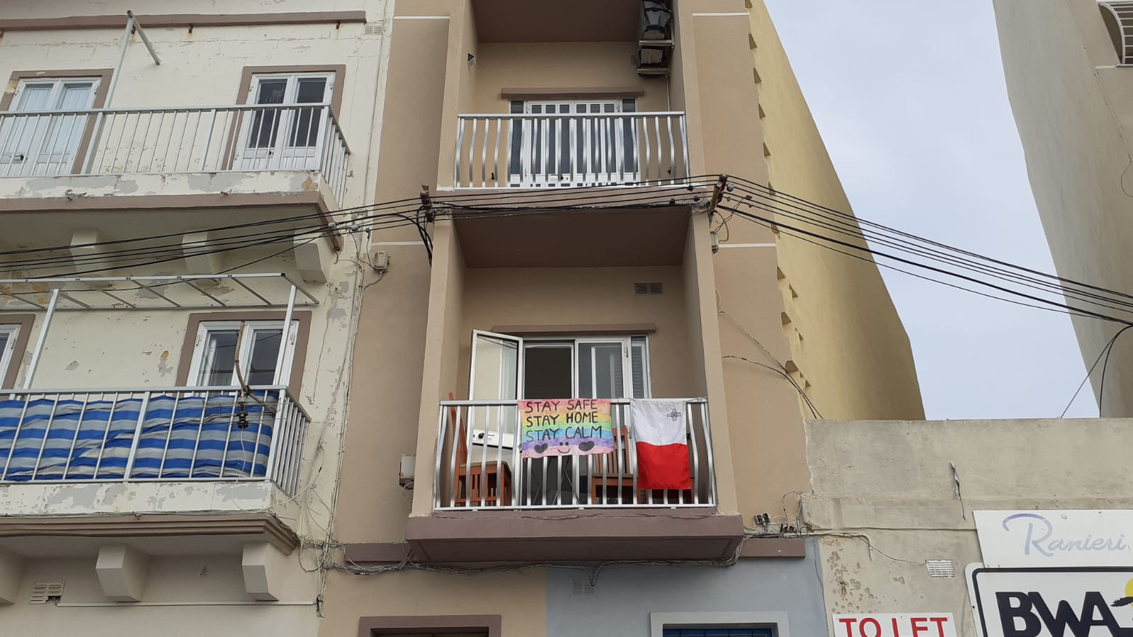 April Malta